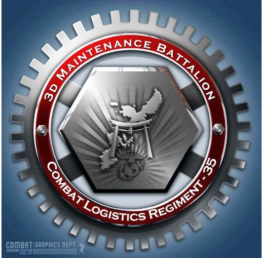 Logo for 3rd Maintenance Battalion